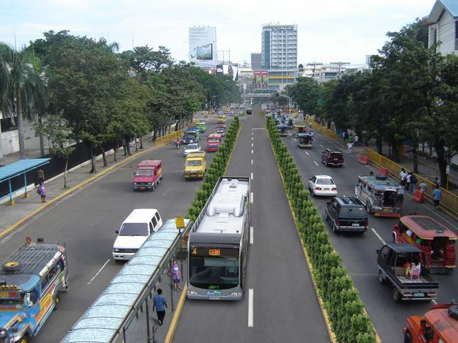 Artists impression of BRT insertion down the middle Osmena Boulevard in Cebu, Philippines